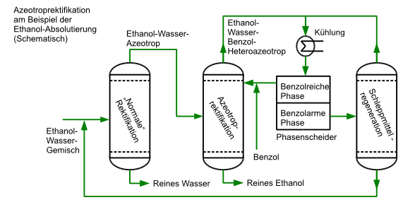 Schematic diagram for the process azeotropic distilliation (German descriptions)